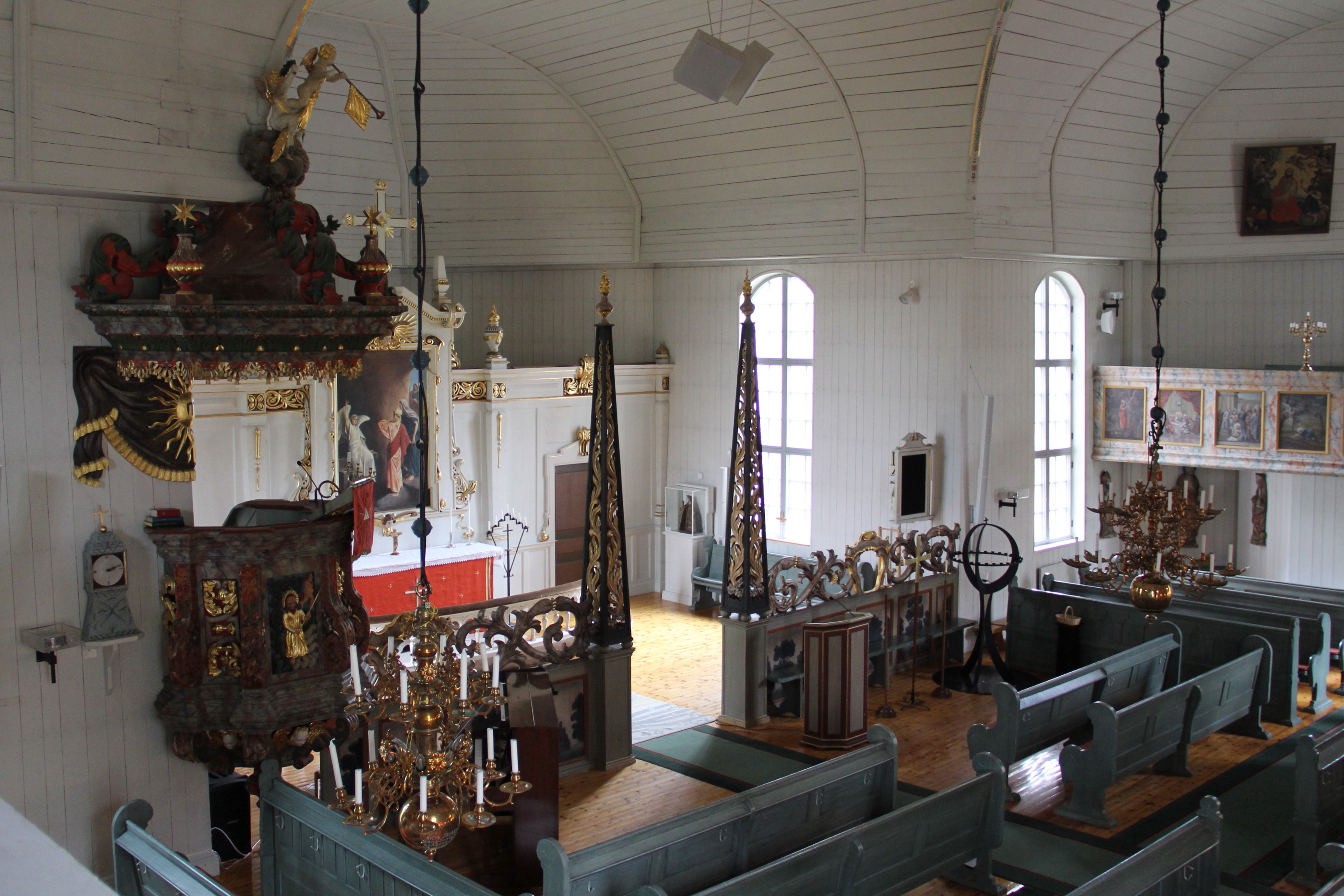 Övertorneå church, Övertorneå, Sweden. - Altar seen from balcony.